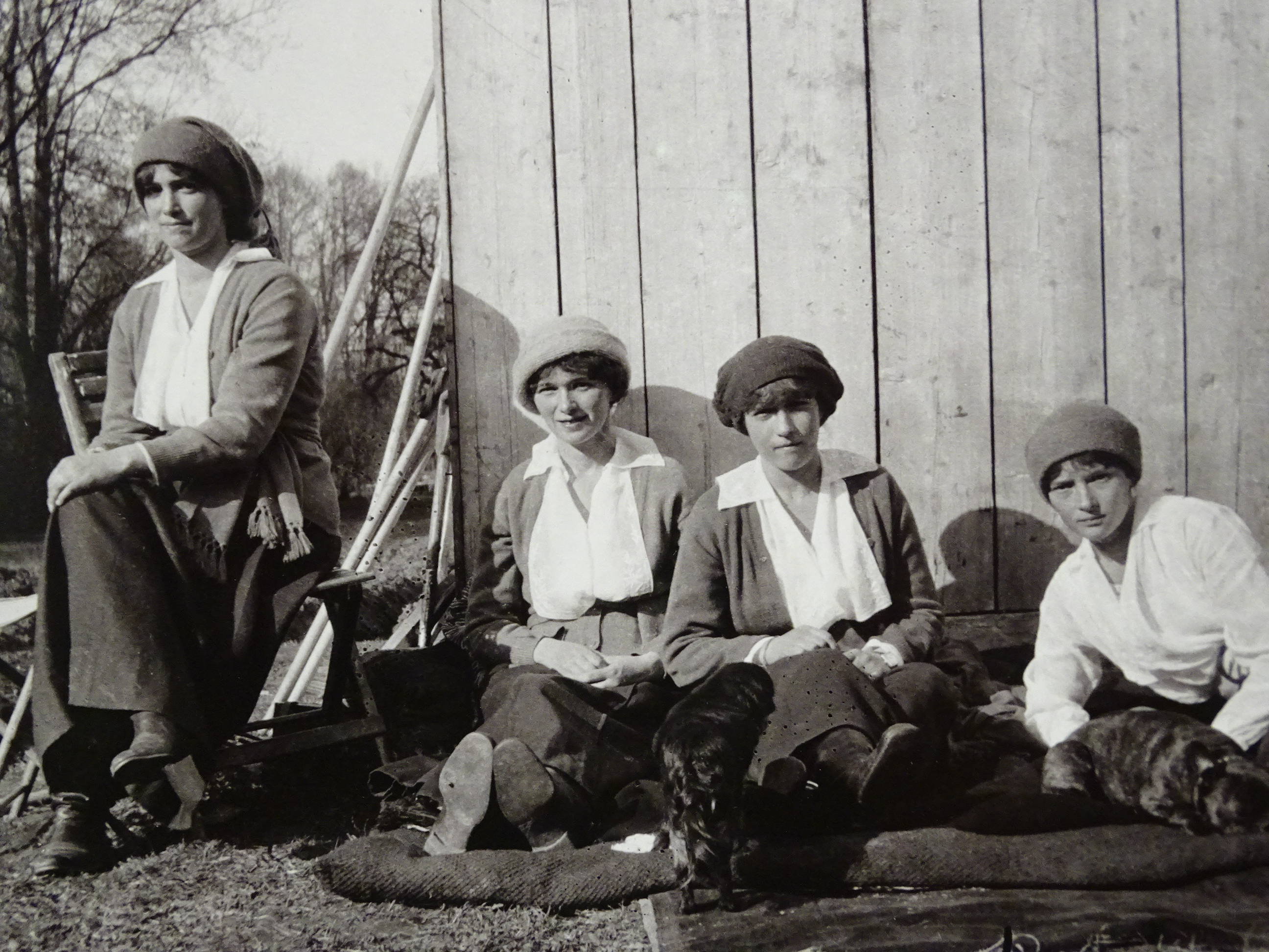 Photograph of Grand Duchesses Maria, Olga, Anastasia and Tatiana Nikolaevna of Russia in captivity at Tsarskoe Selo in the spring of 1917. Anastasia's King Charles Spaniel was called Jimmy and Tatiana's French Bulldog was called Ortino. It is from . It has been reproduced multiple times in different publications. Because of its age, I think it's probably in the public domain. If it's not, please delete the photo. Portrait of the Four Grand Duchesses, Maria, Olga, Anastasia, and Tatiana (may 1917) - by Pierre Gilliard, The Last Days of the Romanovs